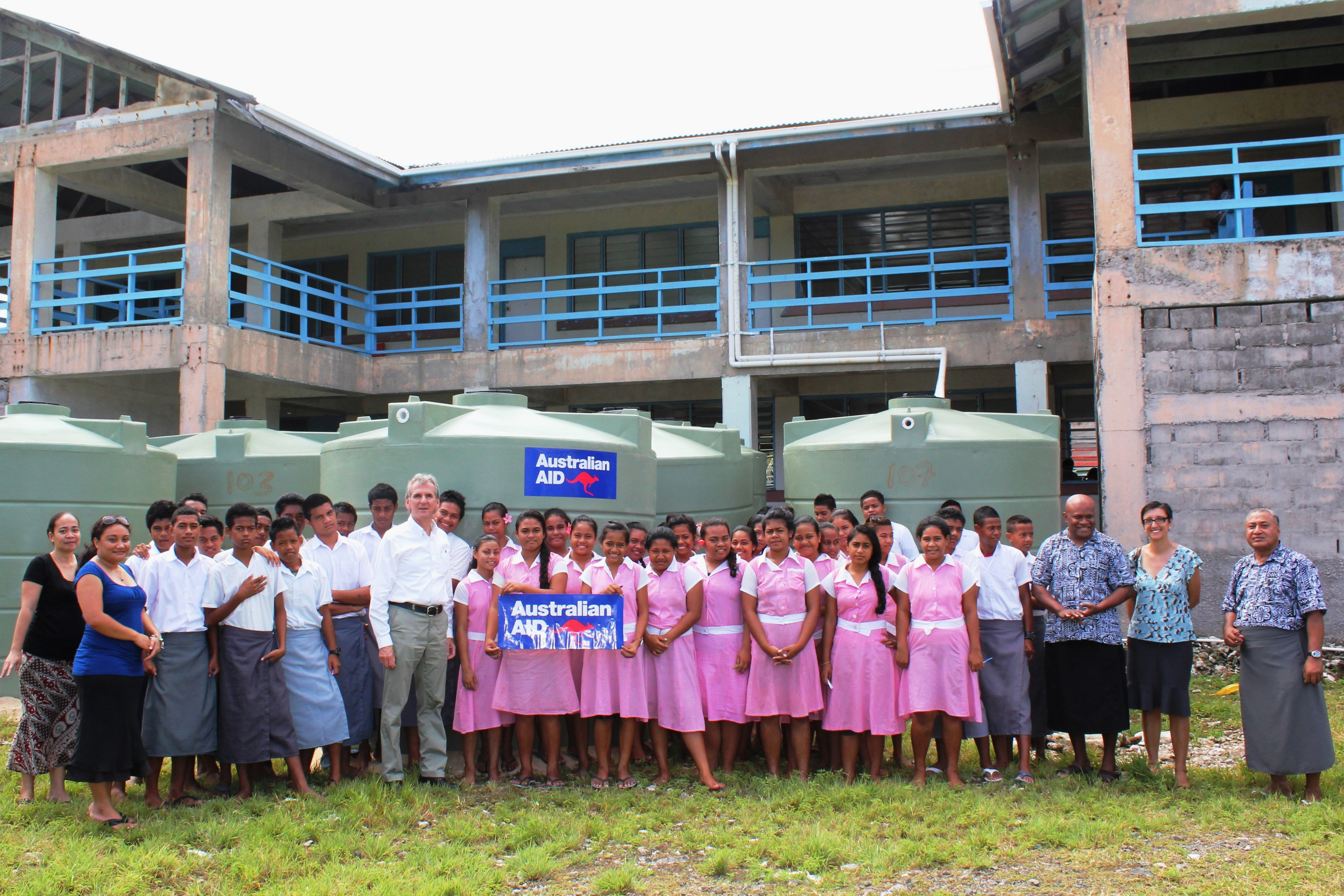 Fetuvalu High School on Funafuti atoll, Tuvalu, 2012. Australia is helping the Tuvaluan Government strengthen its education system, and providing water tanks to ensure schools stay open during dry periods. Photo: Claire Cullen / DFAT